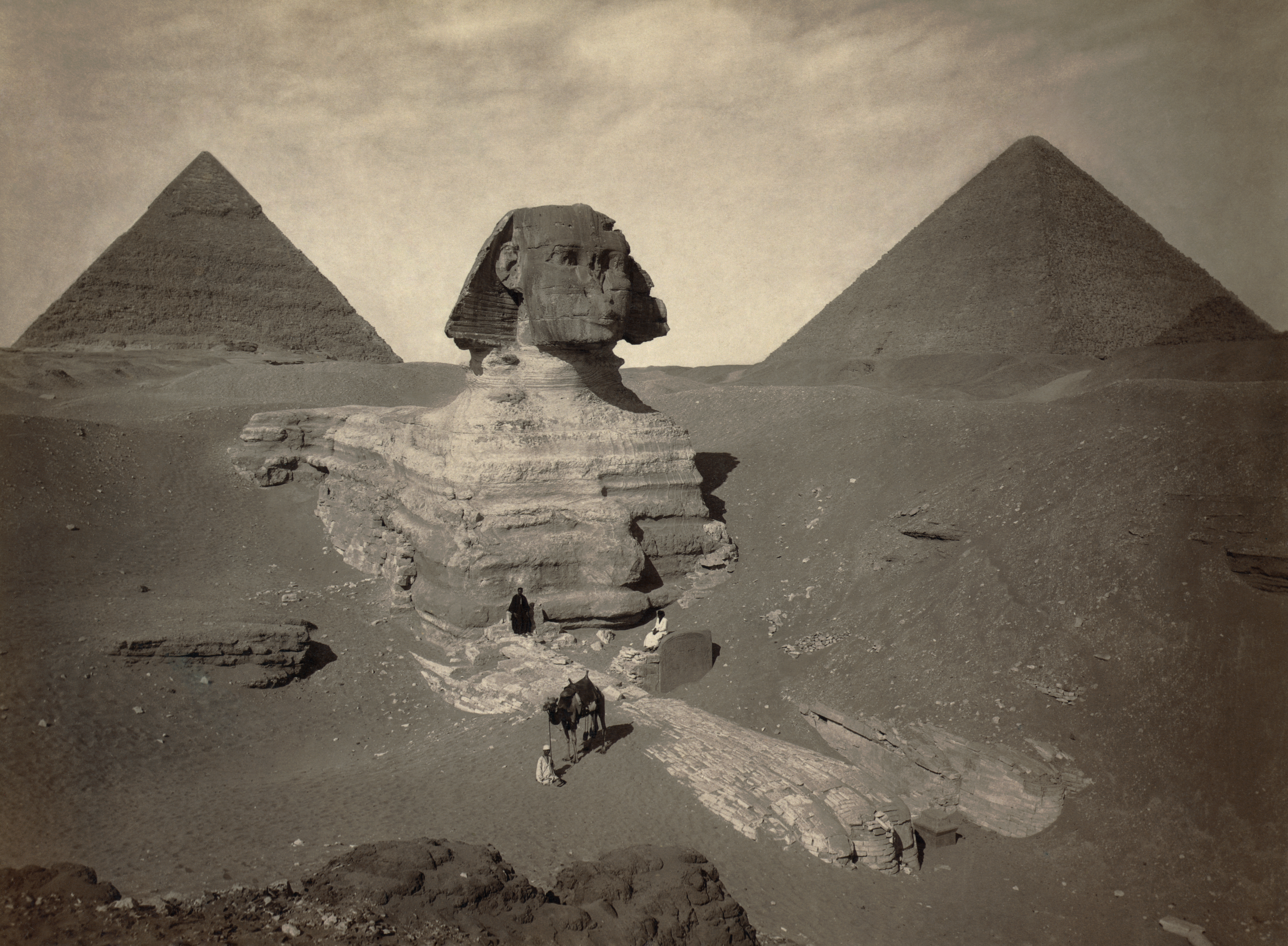 The Great Sphinx of Giza, partially excavated, with two pyramids in background. Albumen print.